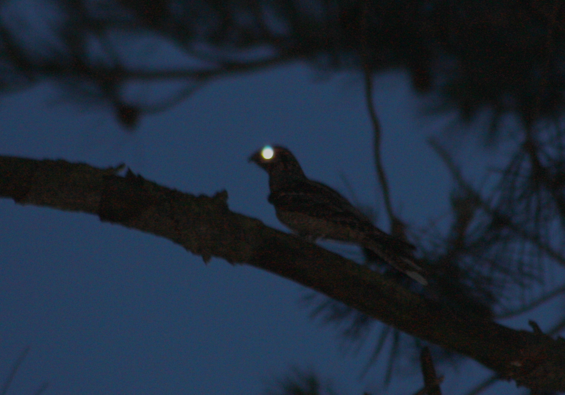 A European Nightjar in France photographed at night. Light is reflecting from its eye.